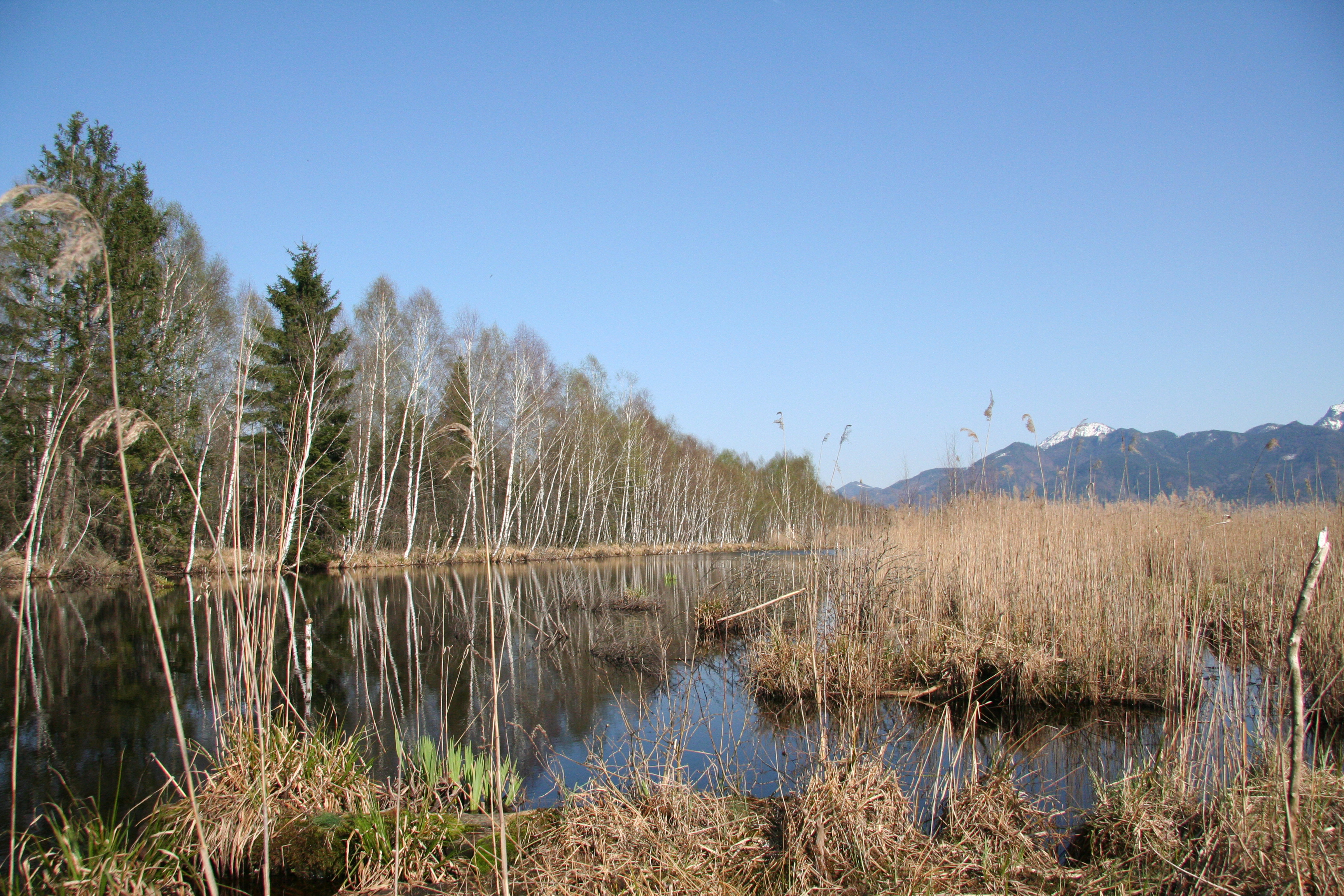 Nature reserve Kendlmühlfilzn, marshland south of Chiemsee, Upper Bavaria